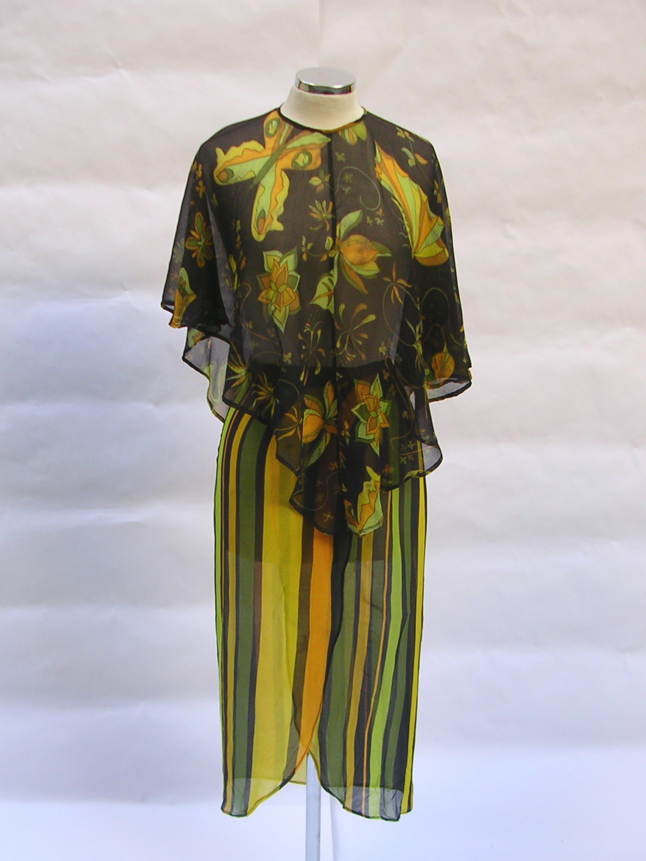 Dress by Yannis Tseklenis from the "Insects" collection, 1972